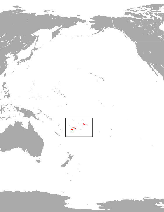 Samoa Flying Fox (Pteropus samoensis) range